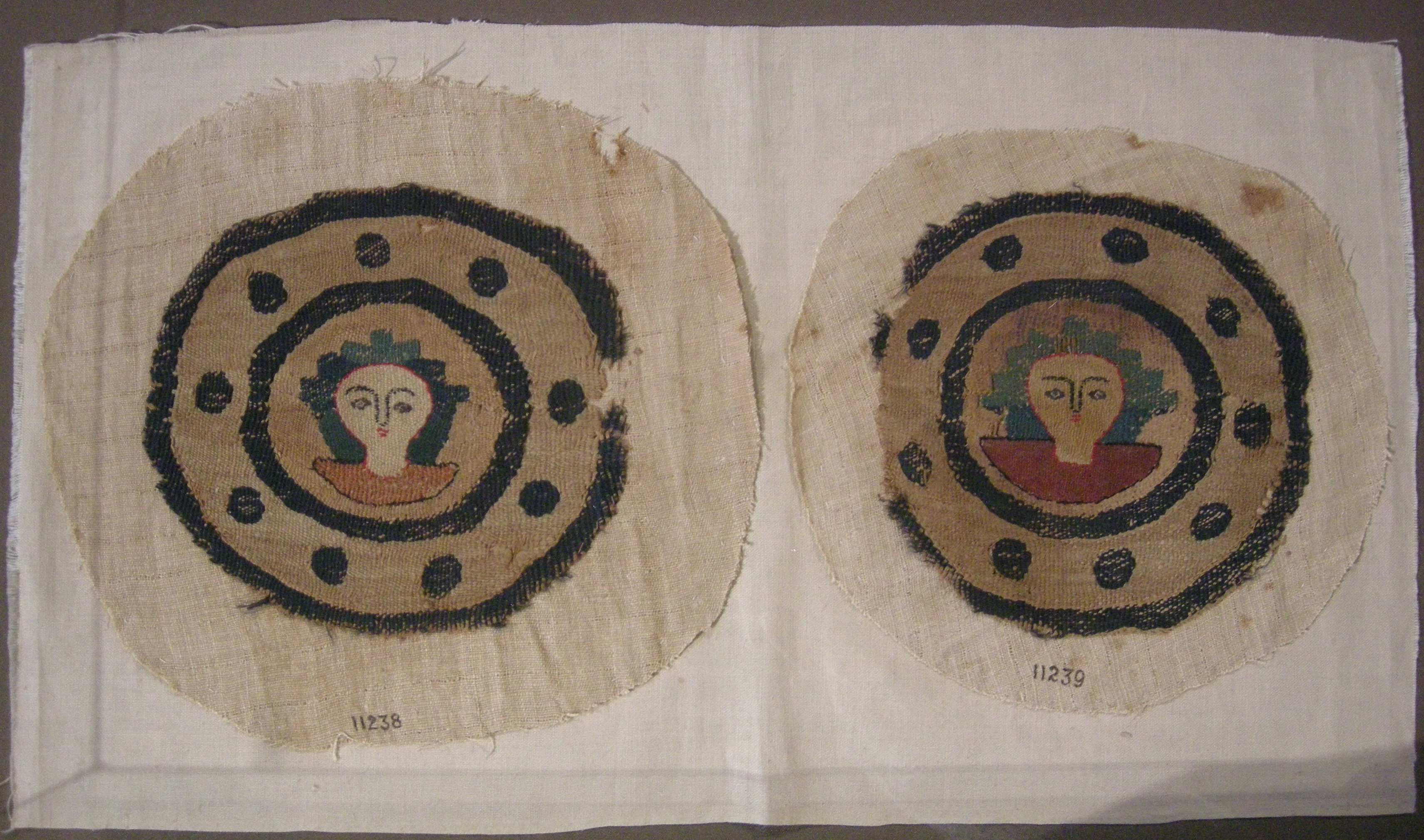 Piece(s) number: 11238 - 11239 At the Coptic Museum in Cairo Two tapestry roundels from a tunic. Materials: The piece woven with linen threads, ornamented with wool threads. Techniques: Tapestry “unextended weft". Patterns: Each roundel decorated with two Overlapping circles, the outer one is decorated with dots. A portrait with long hair centers the inner circle. 7th century